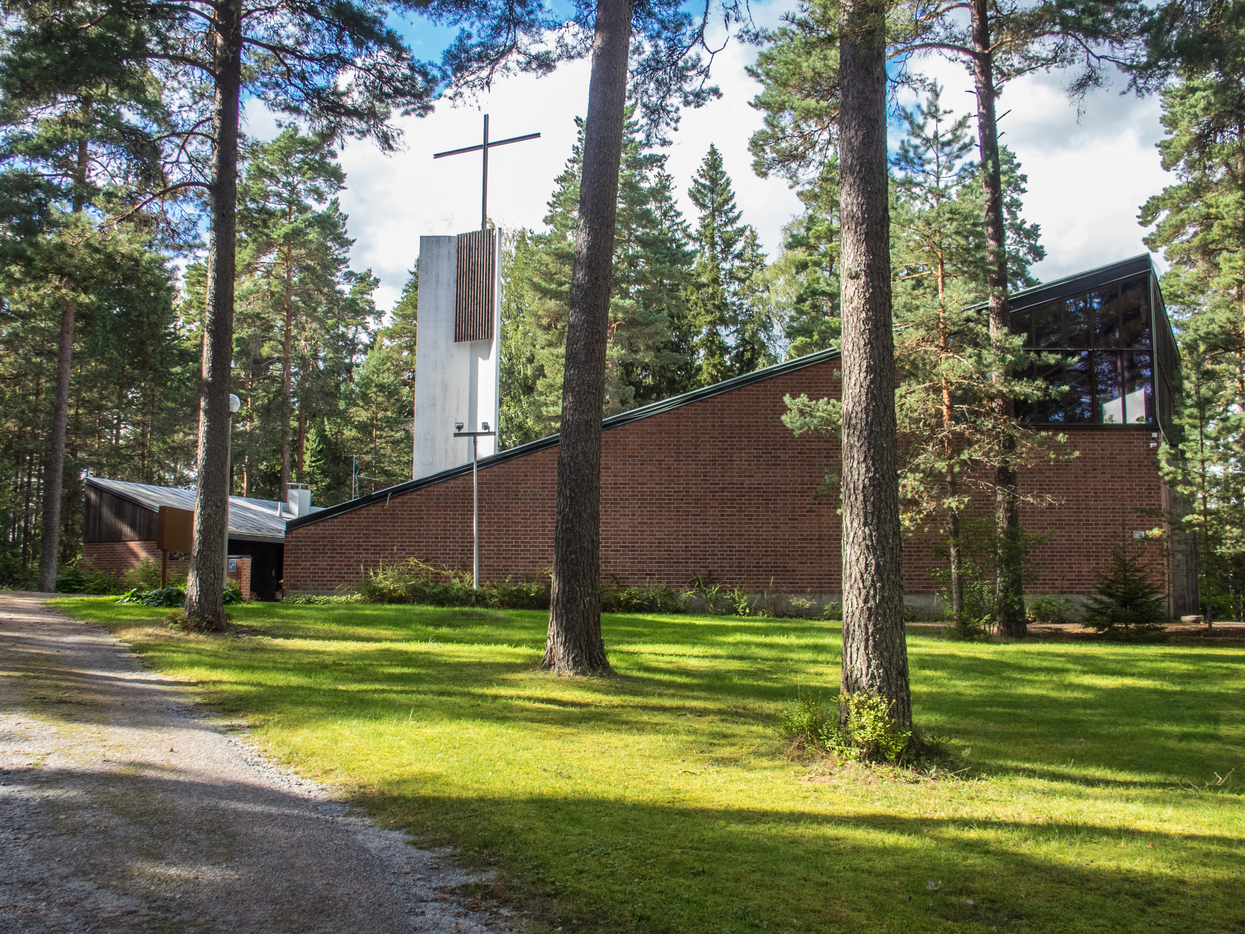 Salokunnan kirkko, arkkitehti Timo Penttilä 1960.